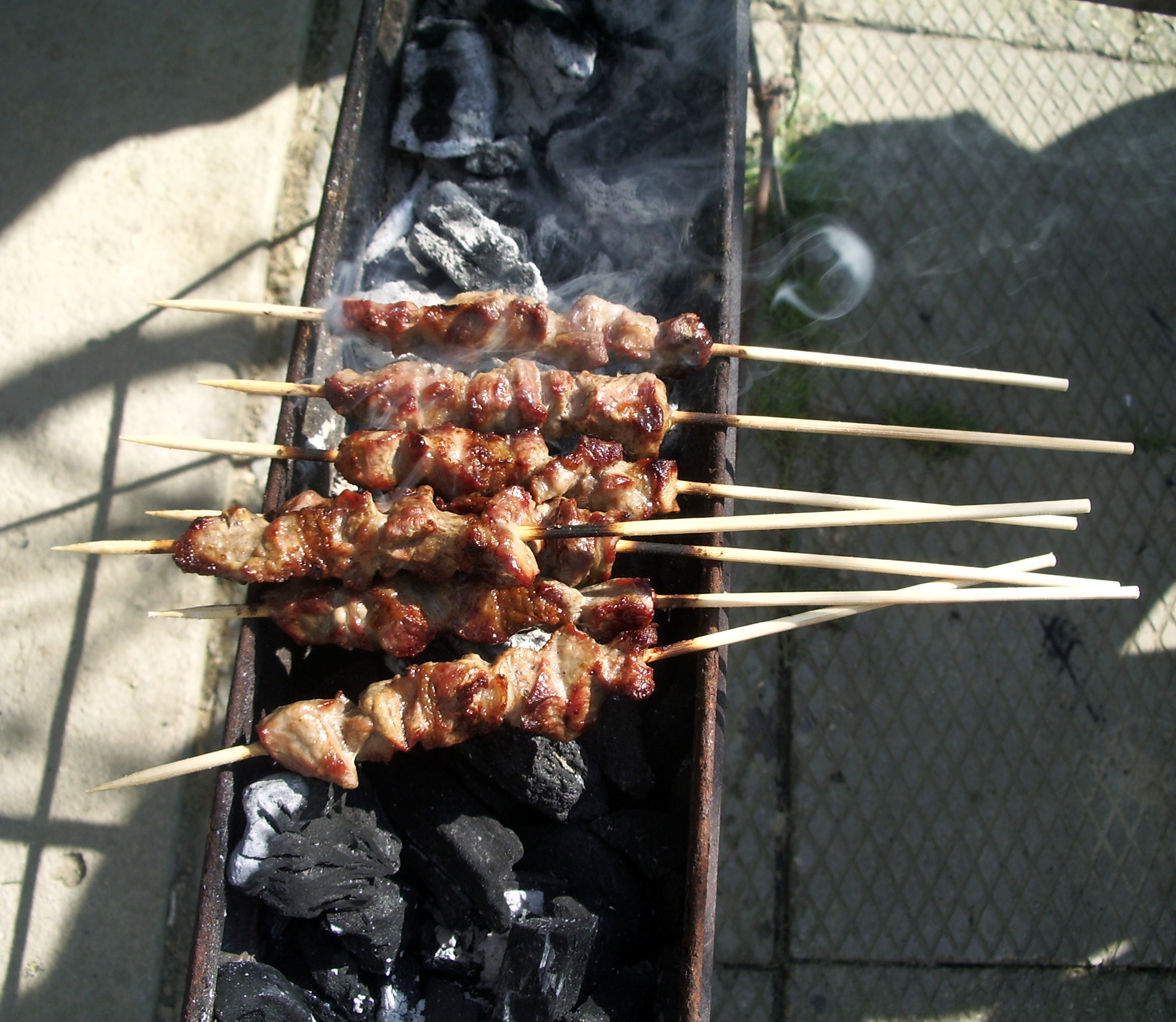 Arrosticini, a traditional dish from the Italian region of Abruzzo. It is typically made from castrated sheep's meat (mutton), cut in chunks and pierced by a skewer. It is cooked over a brazier.